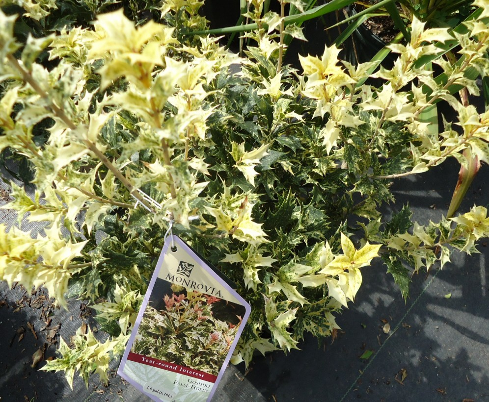 Cultivar 'Goshiki' False Holly plants in a nursery in Cranford, New Jersey on April 14, 2012 (correct date).